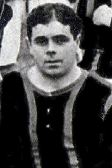 William Jaffrey while with Brentford FC in 1908. Picture cropped from Brentford FC photograph published by Wakefields in 1908.